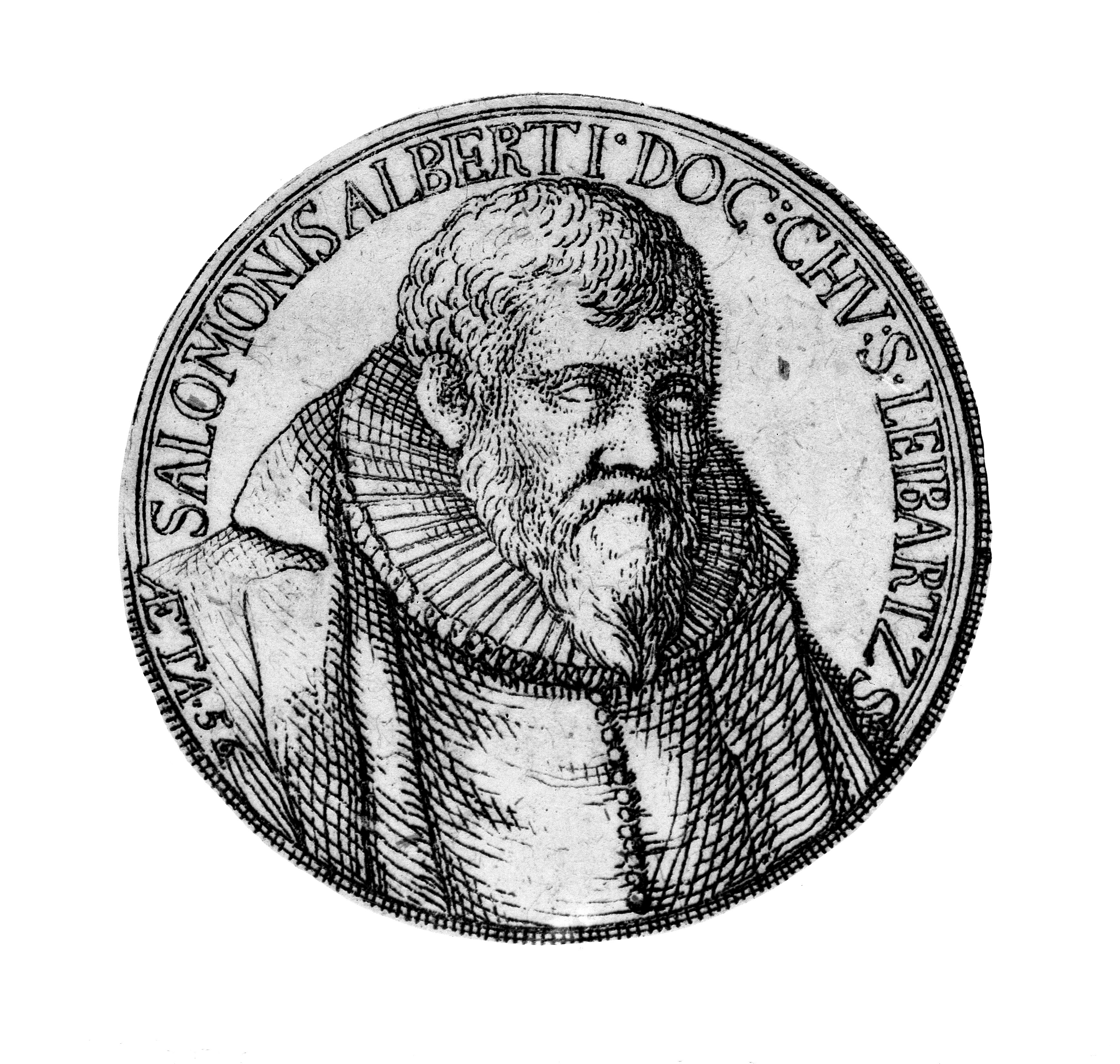 Line-engraving of a medallion from Moehsen. Rare Books